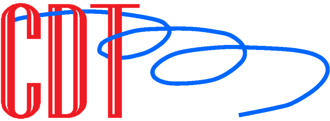 Former communist-era logo for CDT 'Smyk' Dept. Store in Warsaw, Poland